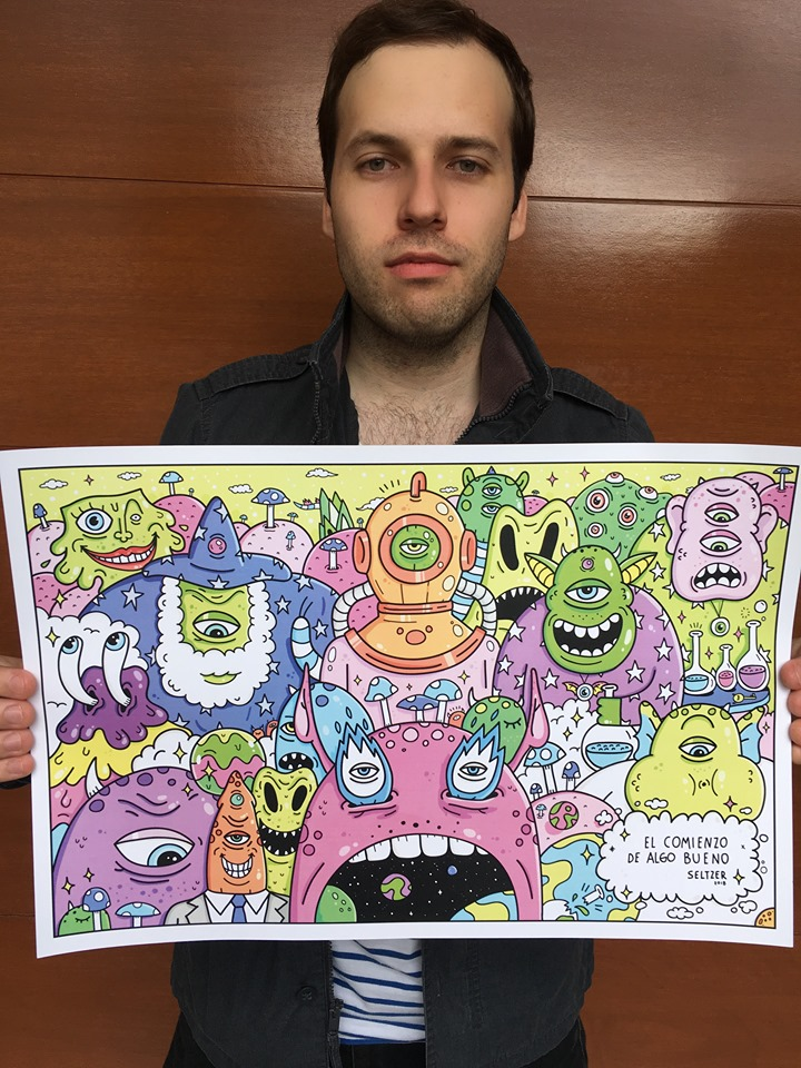 Marcelo Seltzer with one of his drawings